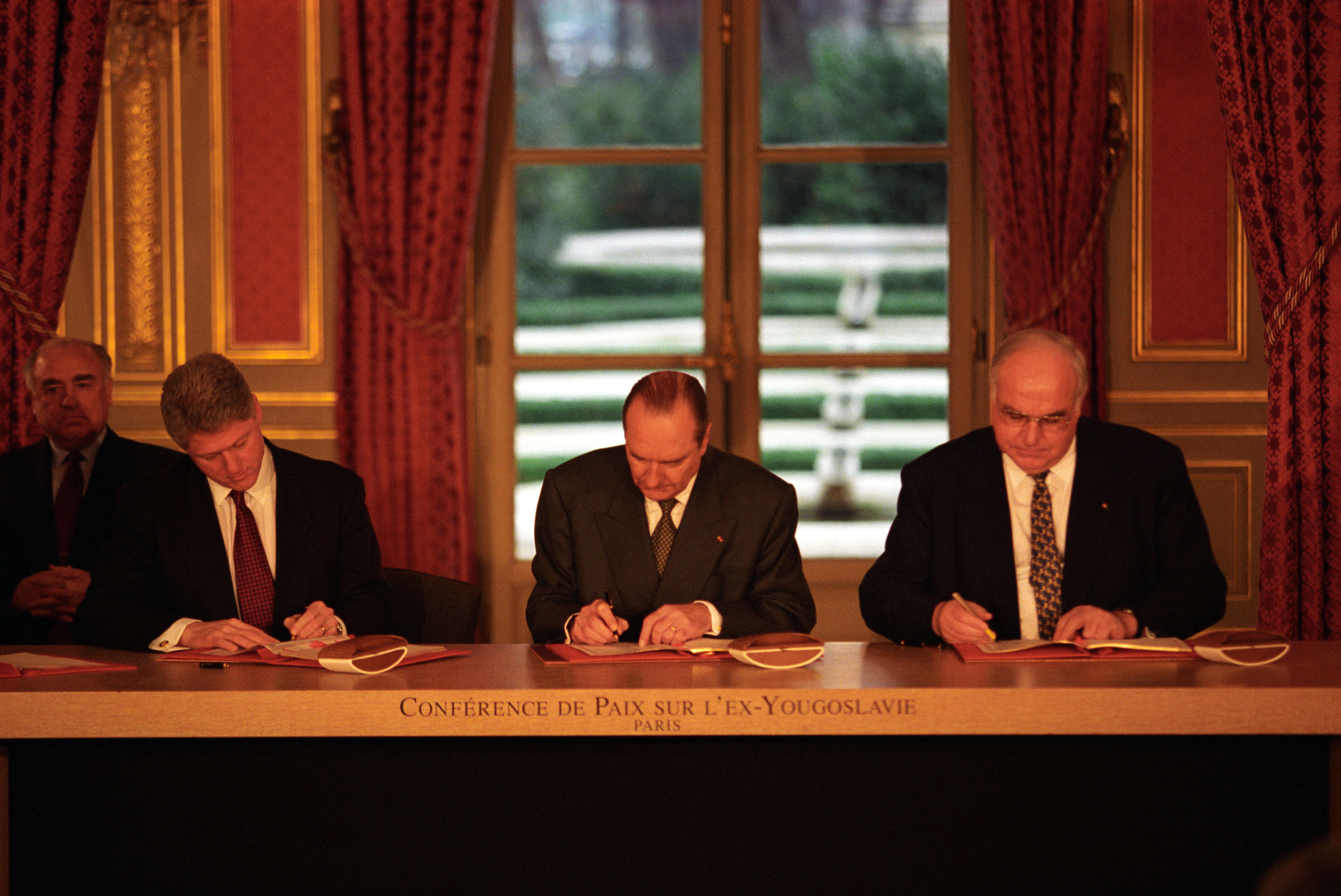 December 14, 1995: President Clinton, French President Jacques Chirac and German Chancellor Helmut Kohl sign the Balkan Peace Agreement at the Quai d’Orsay (Foreign Ministry) in Paris. (Credit: William J. Clinton Presidential Library) Hosted by the Clinton Library and the Clinton Foundation, the document release was spearheaded by CIA’s Historical Review Program (HRP), which identifies, collects and produces historically relevant collections of declassified materials. The Bosnia collection—the youngest ever released in HRP’s 20-year existence—is available online at A video recording of the symposium is available at